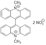 Lucigenin